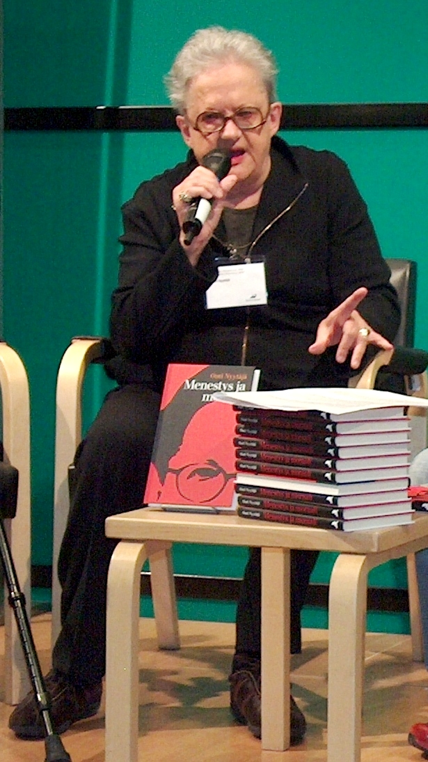 Finnish writer Outi Nyytäjä at the Helsinki Book Fair 2007.